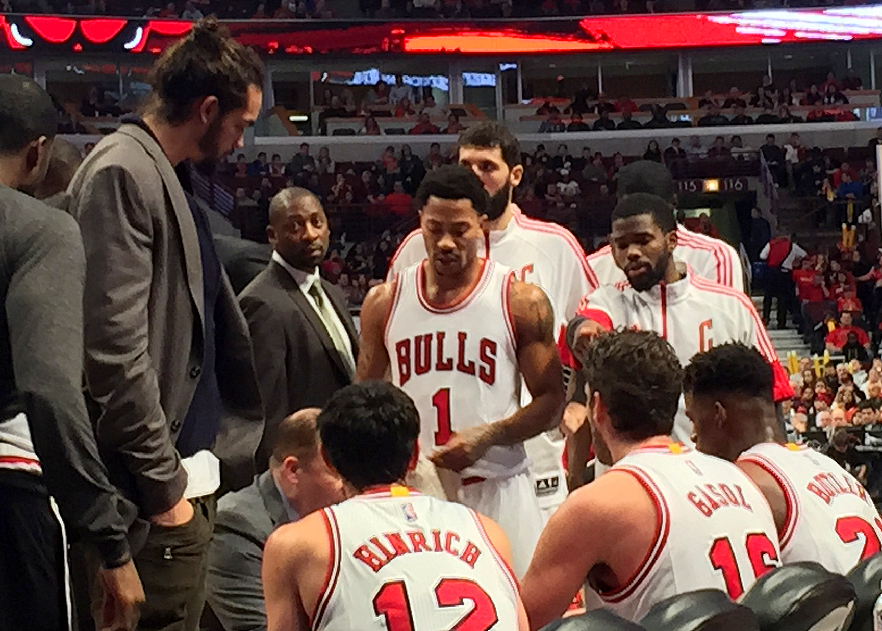 Stryde and I went to the Chicago Bulls game against the Atlanta Hawks. Though it was a great night and we had a ton of fun, the Bulls couldn't beat one of the best teams in the NBA